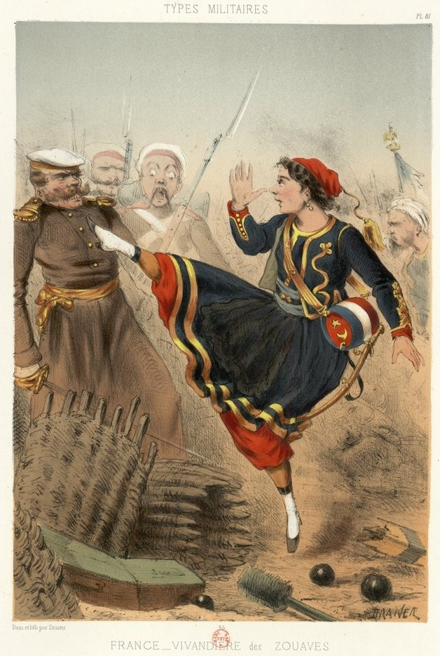 Vivandière des zouaves, engraving by Draner, Second Empire (1855-1870)